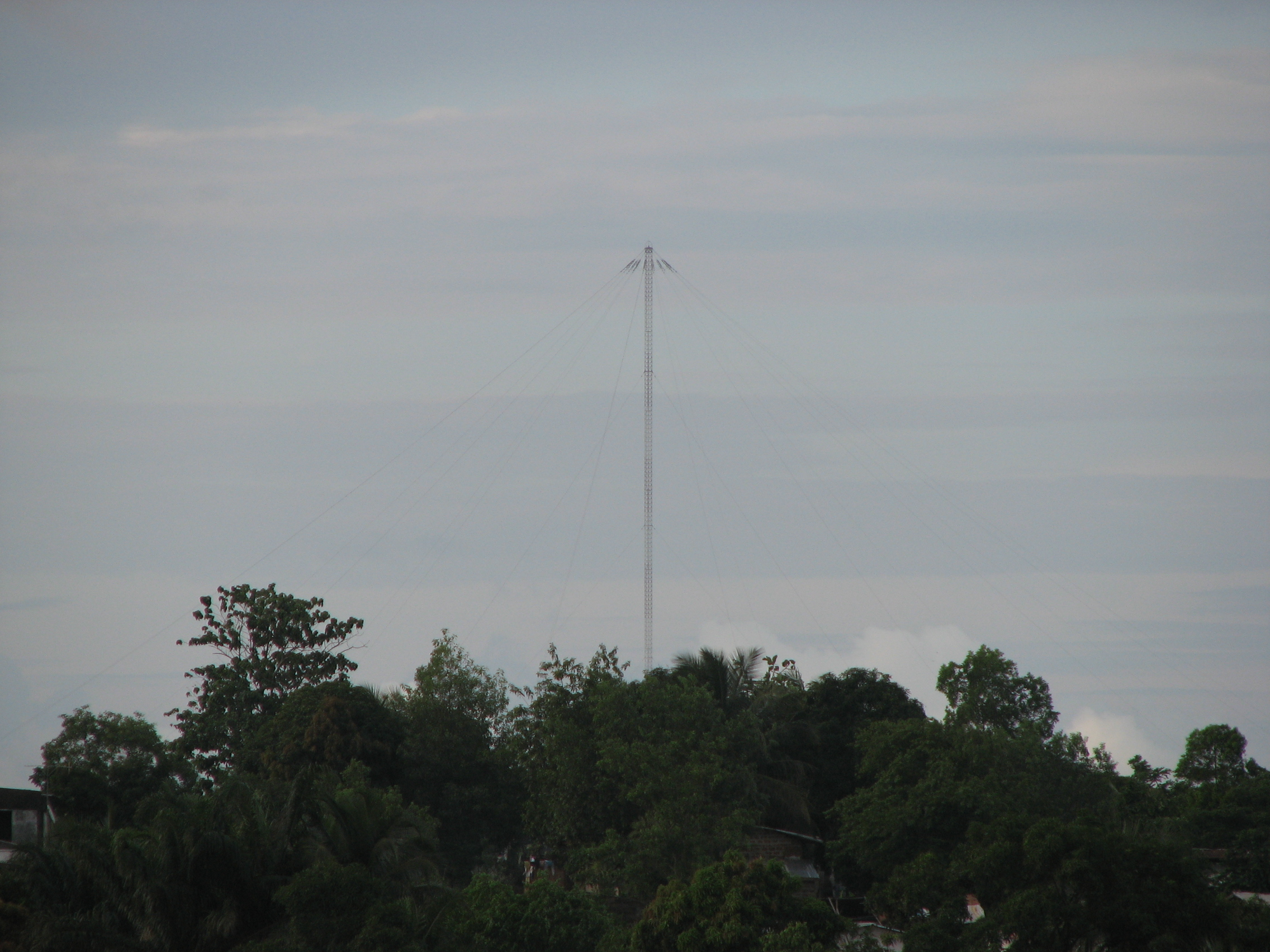 Omega Navigation Tower, Liberia (decommissioned Sep 30, 1997, currently unused) Tower is 1,400 feet (426 m), built in 1976 Wires connected to the top of the tower are the "umbrella" antenna, not supporting structures. View is from approx 5 miles